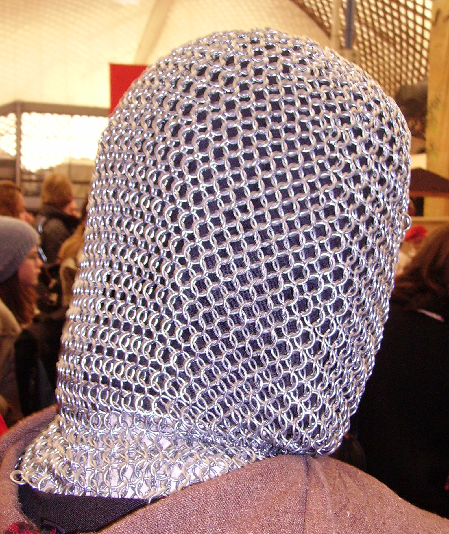 Medieval chain helmet